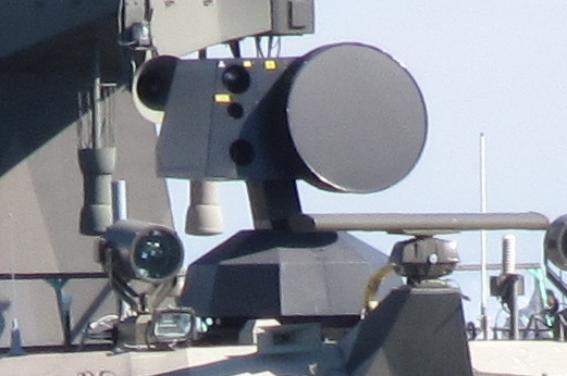 Saab CEROS 200 fire control system with radar and electrooptic sensors mounted on a Hamina-class missile boat.